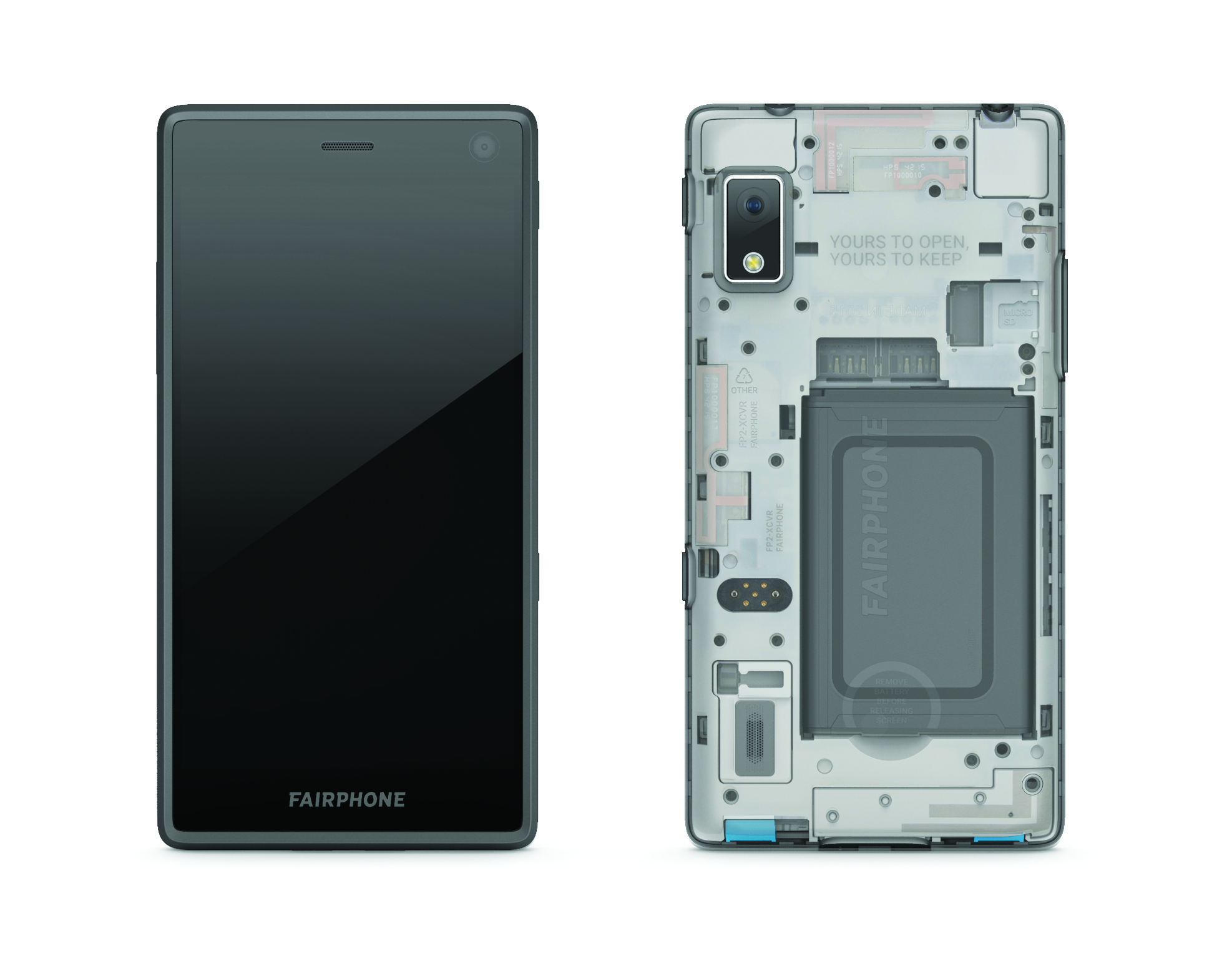 Front and back view of a Fairphone 2, showing the modular construction of the phone. The phone comprises six modules that can be removed and replaced: the display module (screen), the camera module (rear-facing camera), the top module (front-facing camera, headphone jack, speaker, noise-cancelling microphone and sensors), the bottom module (USB connector, loudspeaker, vibration motor and microphone), the core module (motherboard, card slots, antennas) and the battery. The modular construction makes the phone easier to repair and upgrade than standard smartphones.